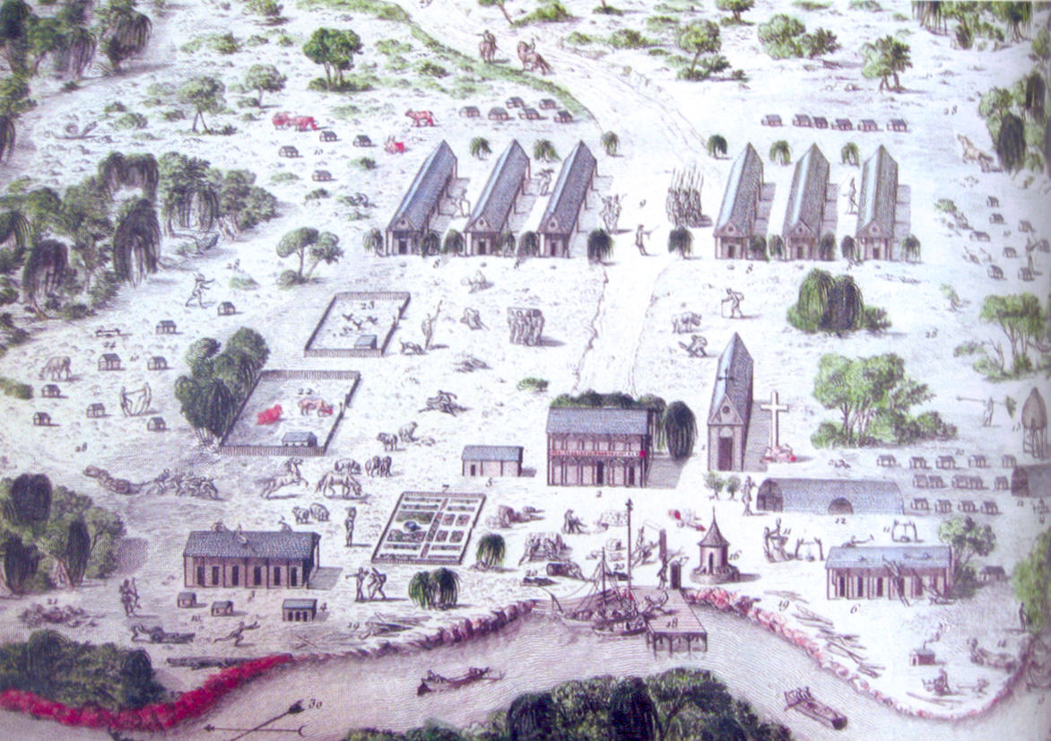 Drawing of Kourou as seen by a cadre in Paris during the expedition.